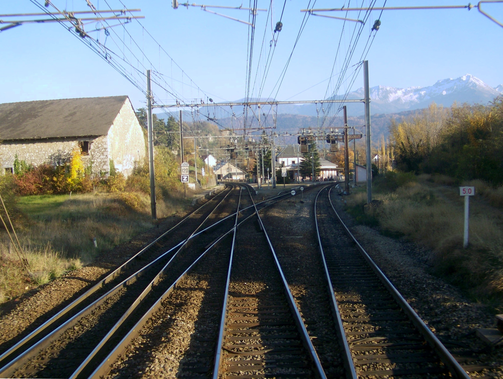 Sight in Savoie on both French railway lines to Modane and Bourg-St-Maurice (left) and beginning of Sillon alpin sud line bound for Grenoble.